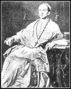 Wlodzimierz Cardinal Czacki (1834-1888)